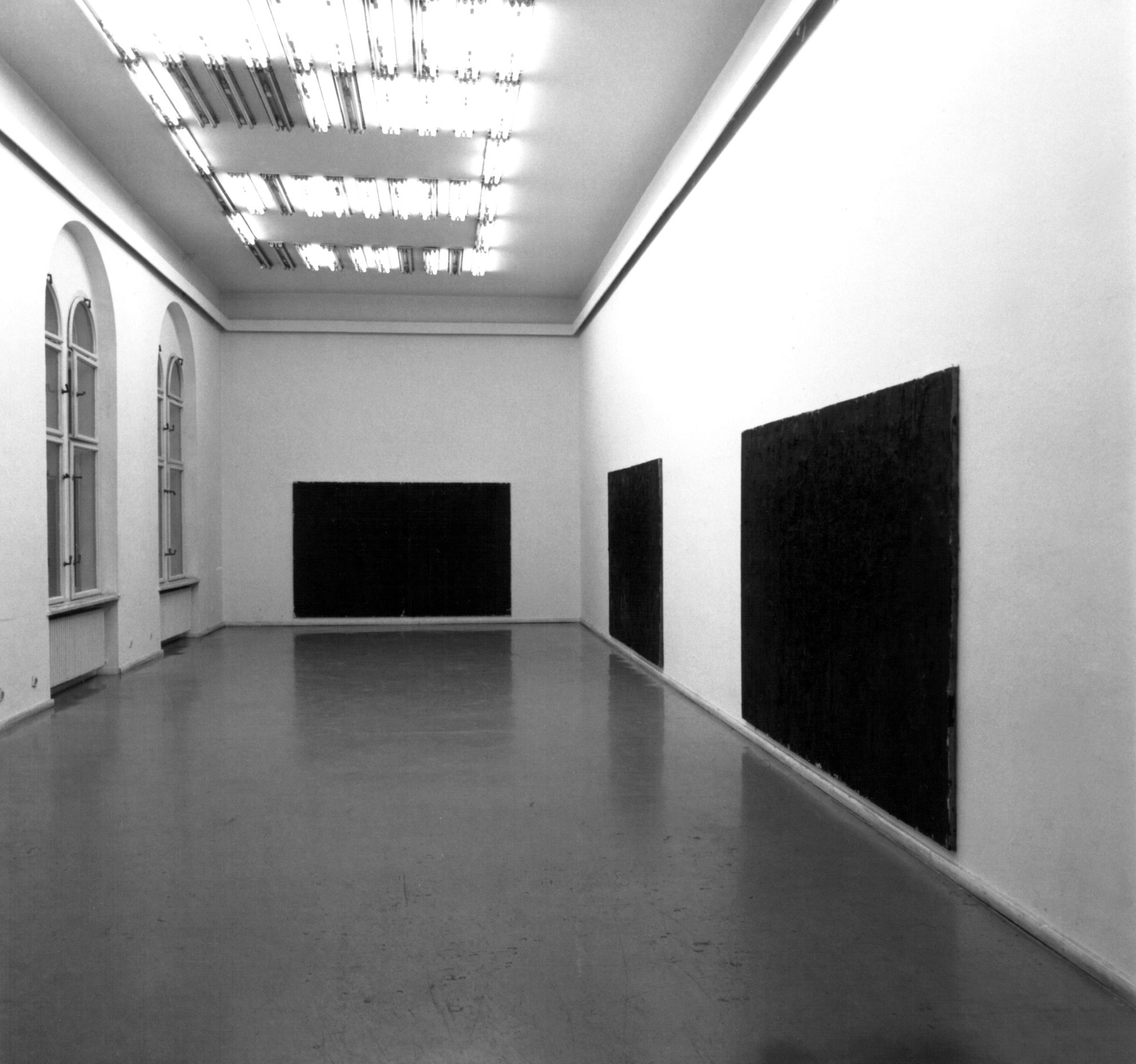 Gallery of SKC, Belgrade, Serbia 1989 Format of paintings on photo 320 x 200 cm Photo Goran Tomić Collection Trajković, Belgrade